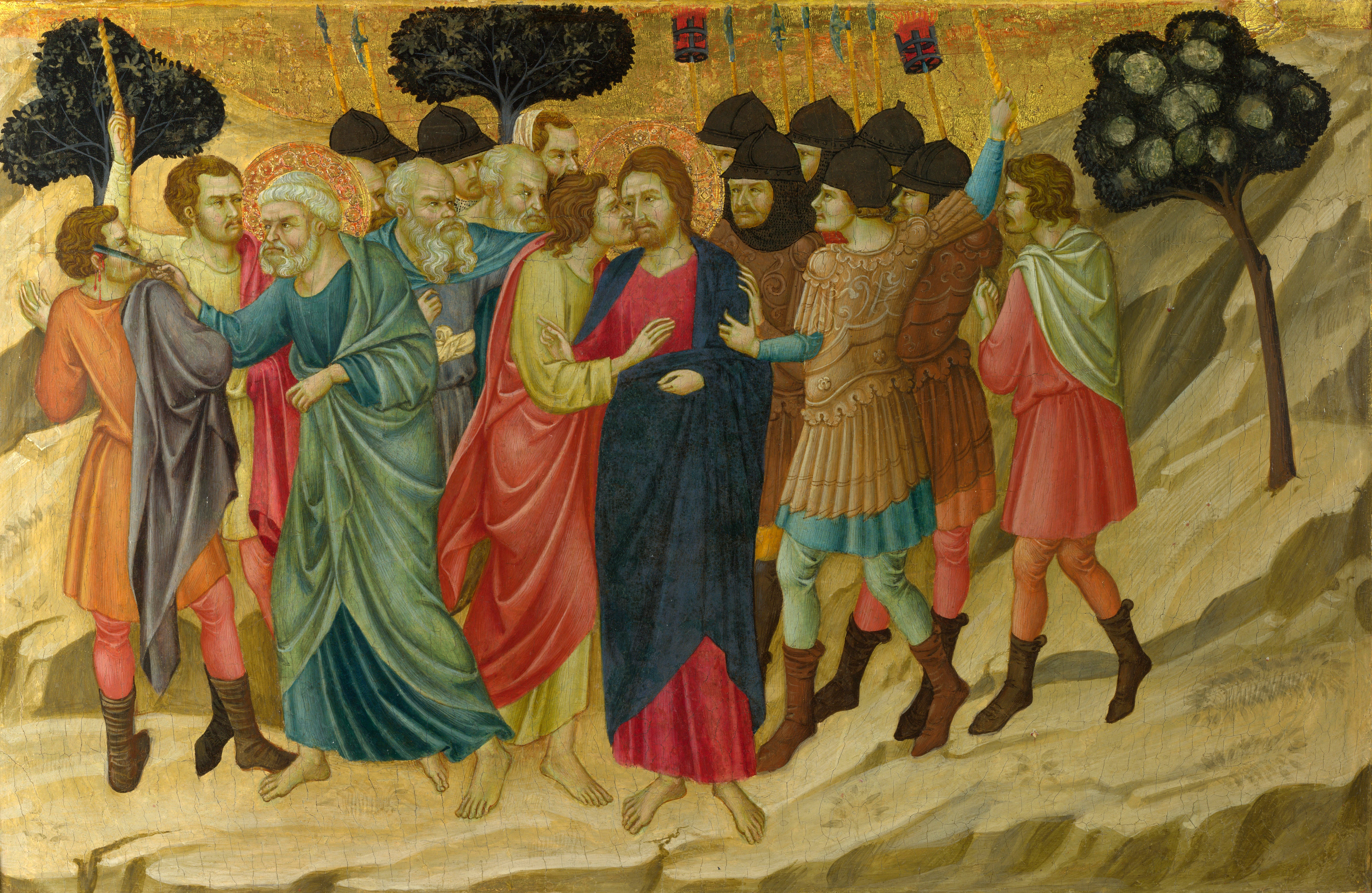 The Betrayal.